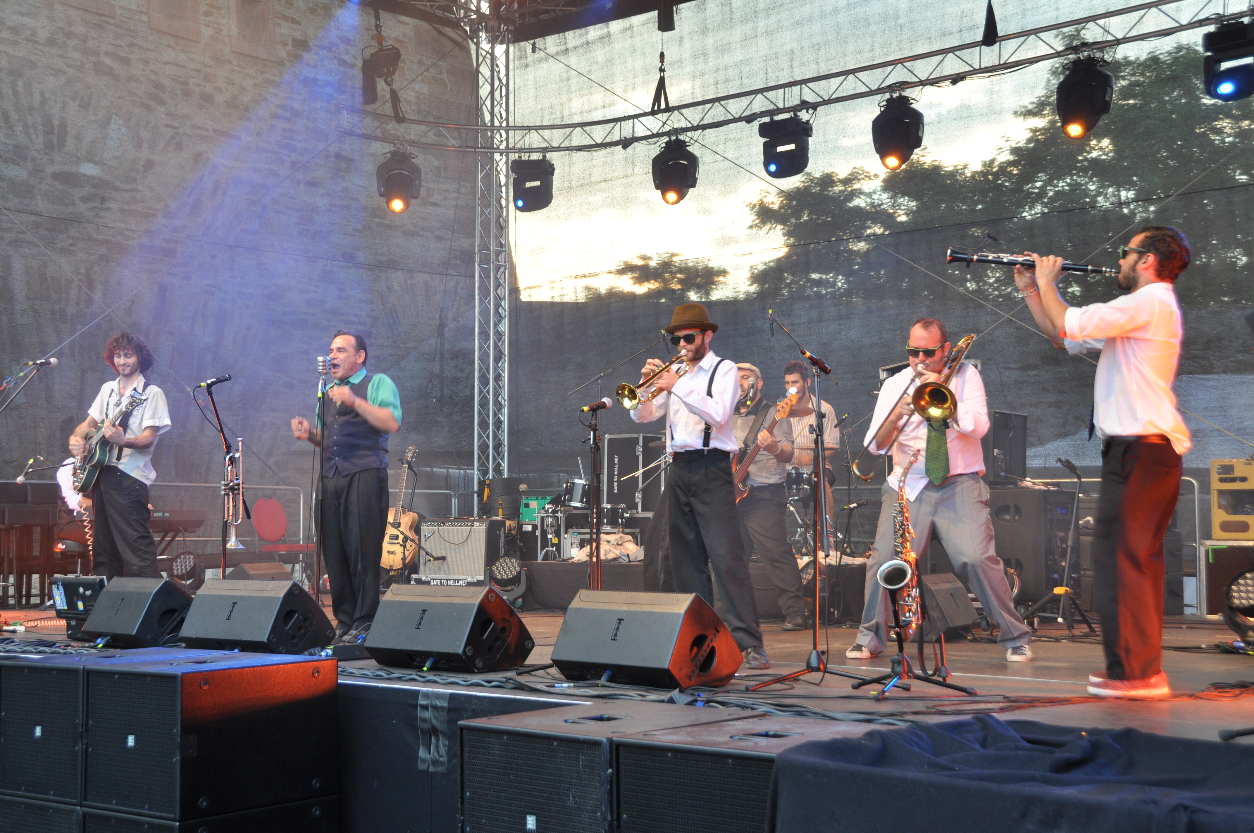 Rosario Smowing (AR), appearance at the 12th World Music Festival "Horizonte" 2014 at the fortress of Ehrenbreitstein, Koblenz (Germany)